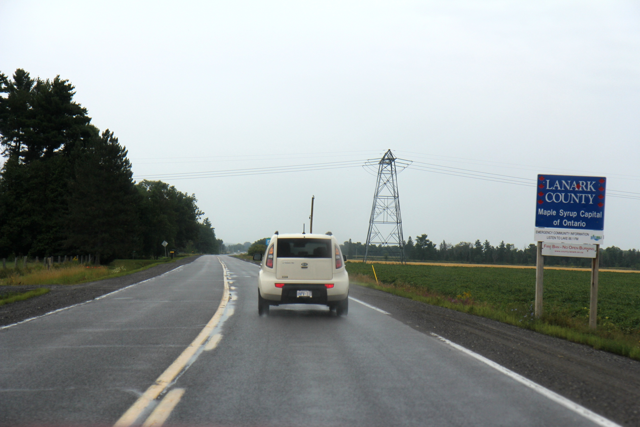 The sign for Lanark County, ON on ON29.